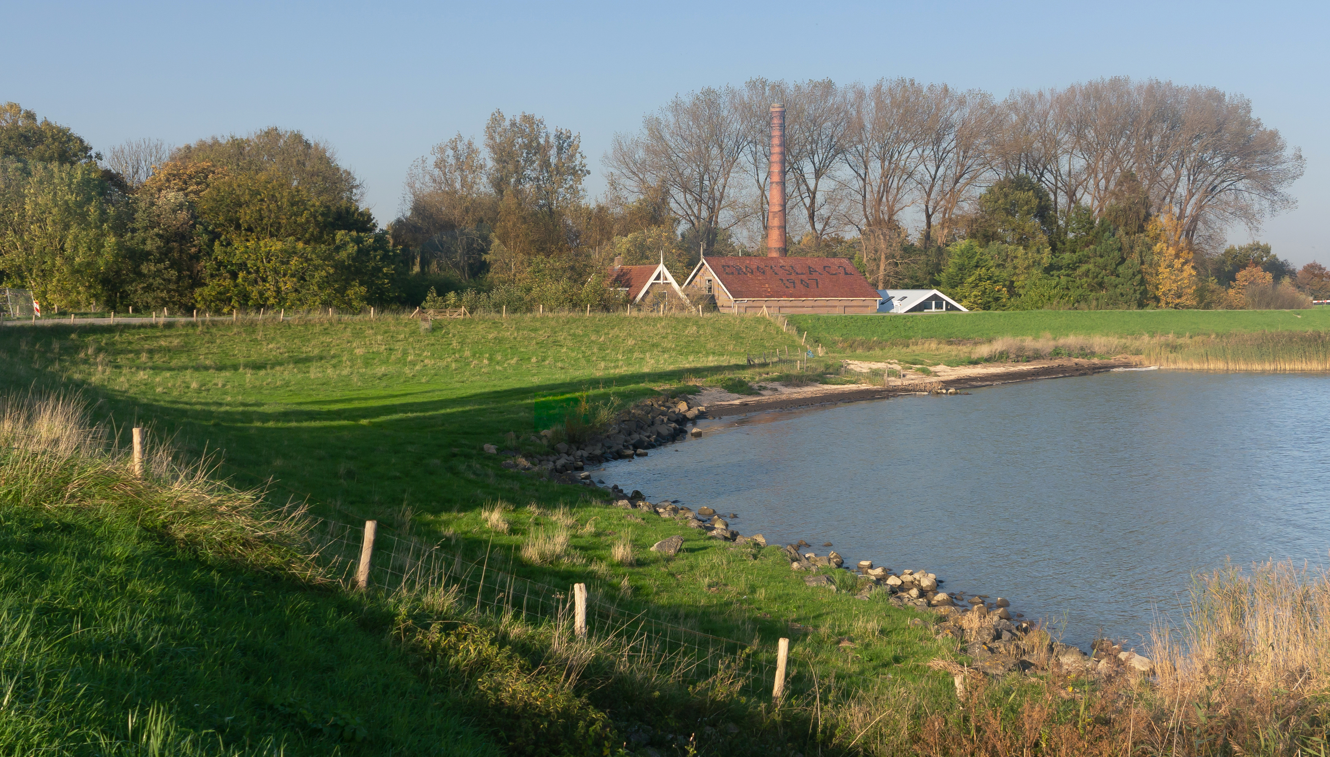 Bovenkarspel, former pumping station Grootslag ll